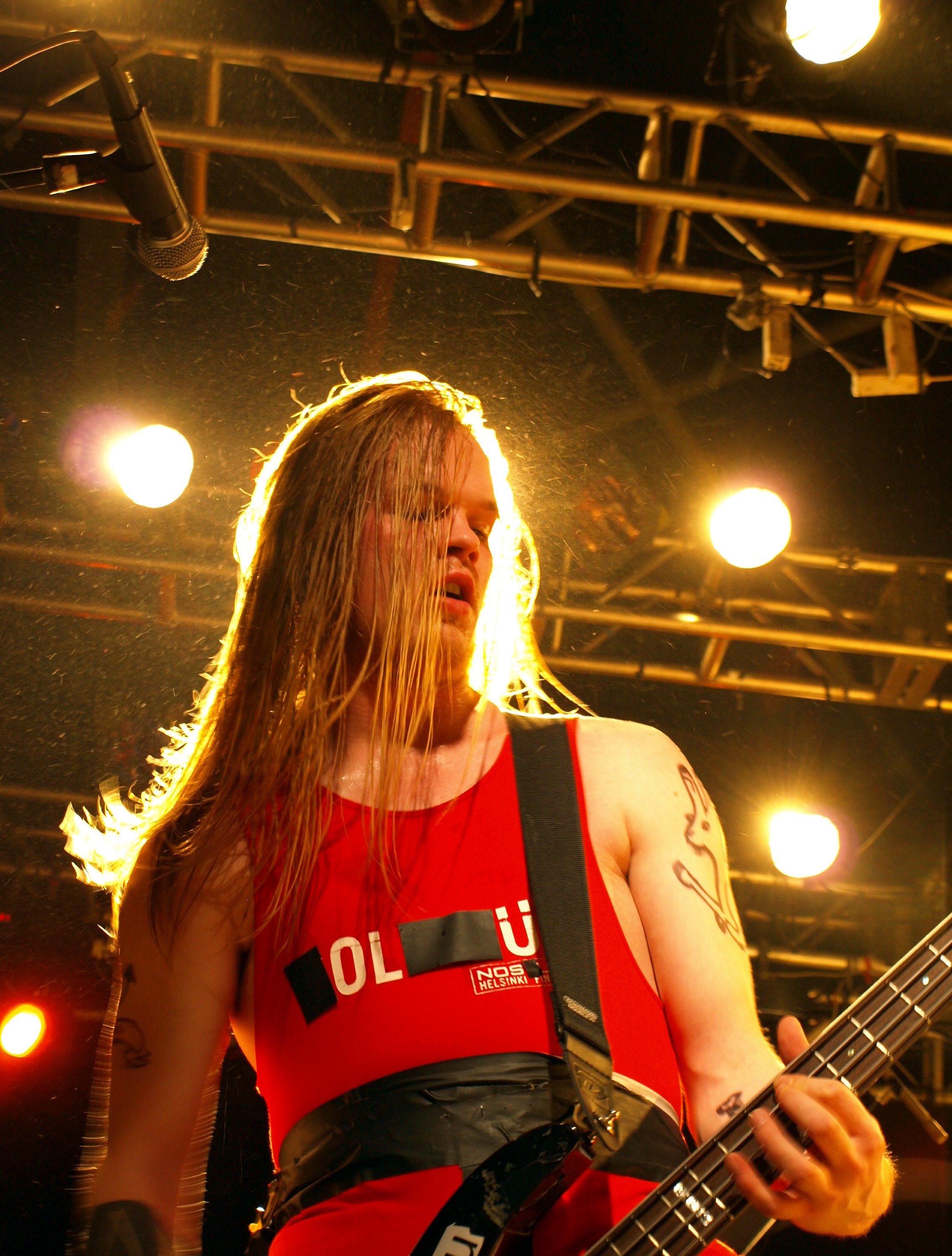 Finnish thrash metal band Stam1na live at Nosturi, Helsinki